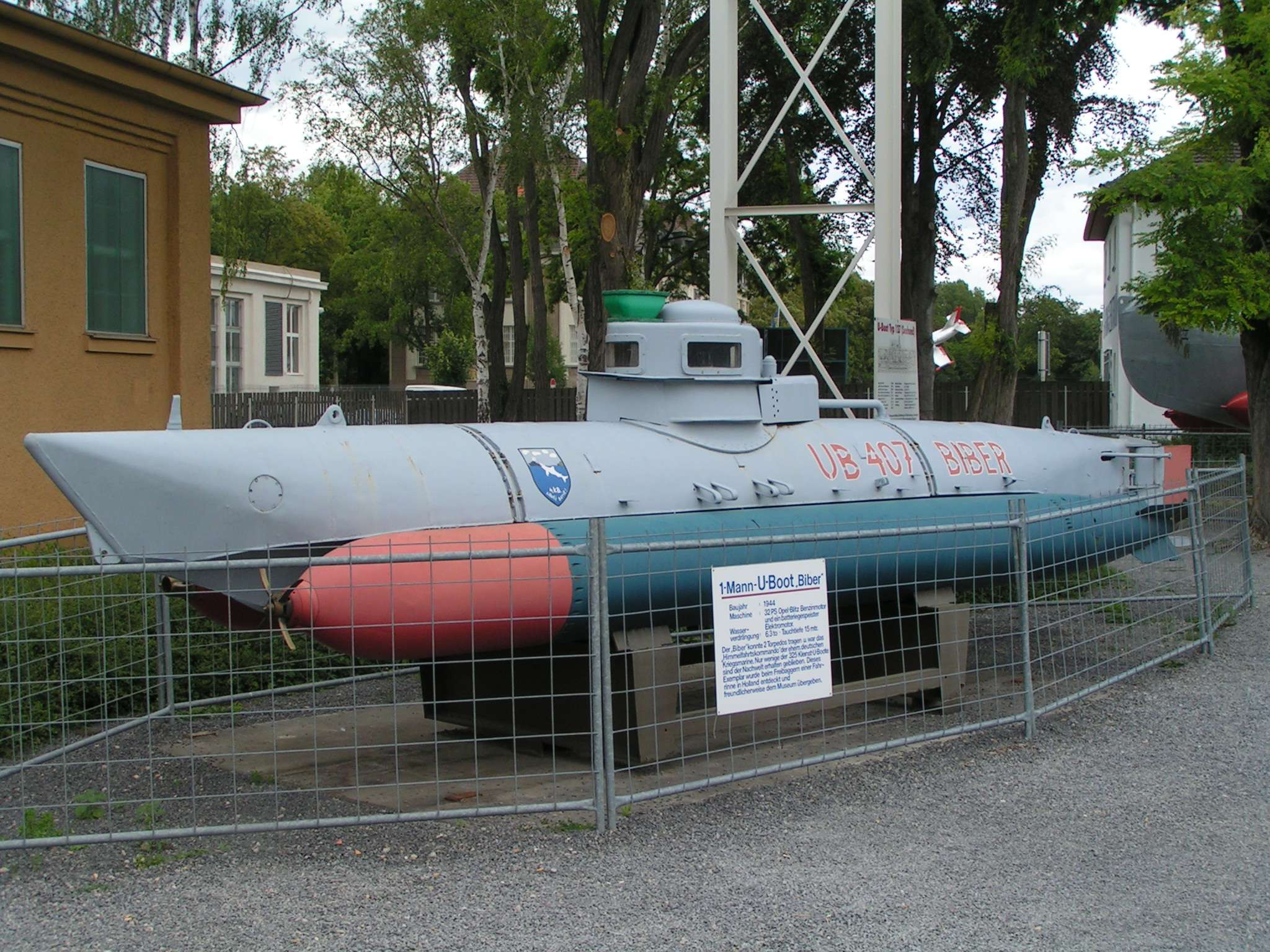 German midget submarine Biber at Technik-Museum Speyer, Germany